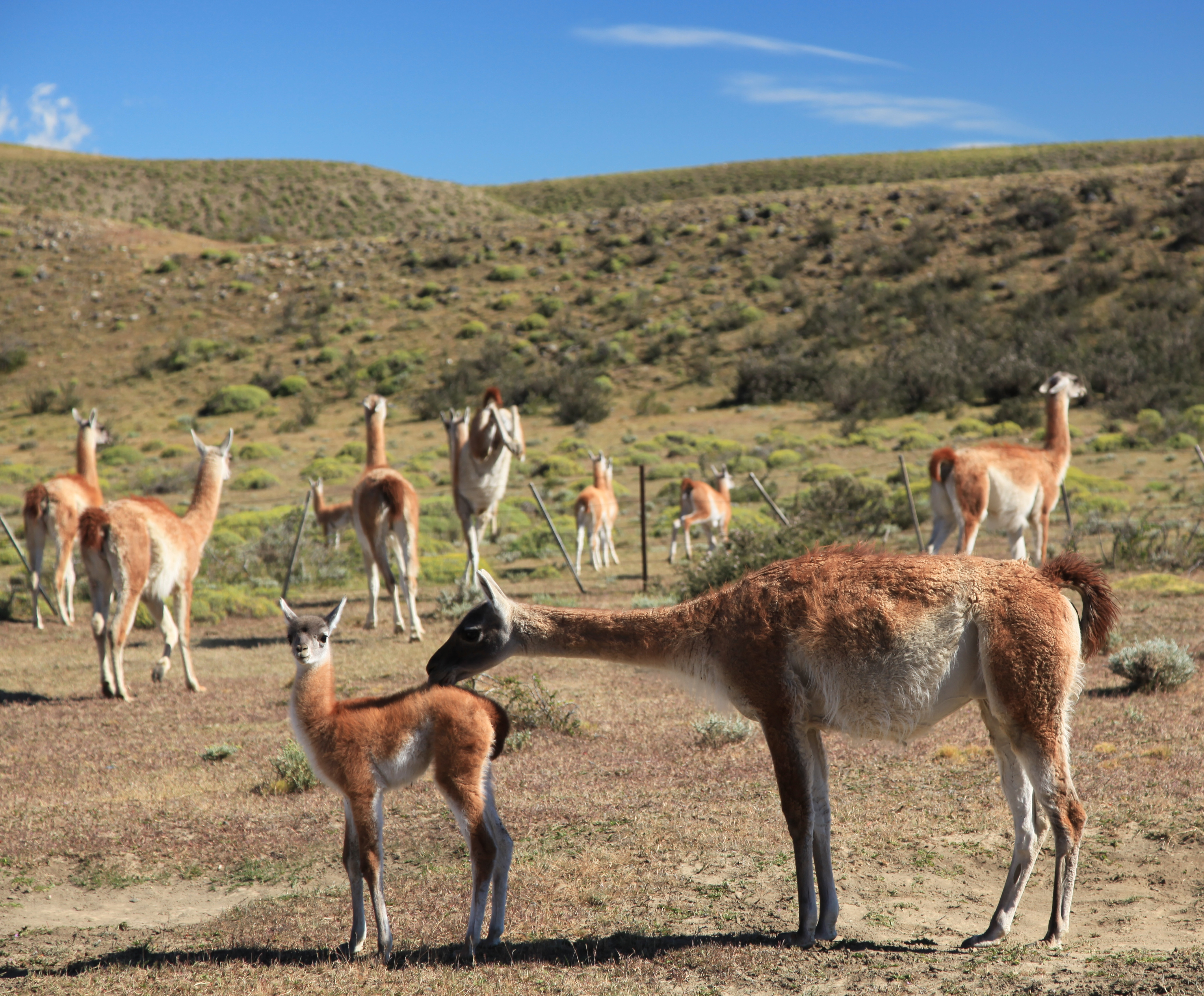 In the background, there's a guanaco jumping the fence.